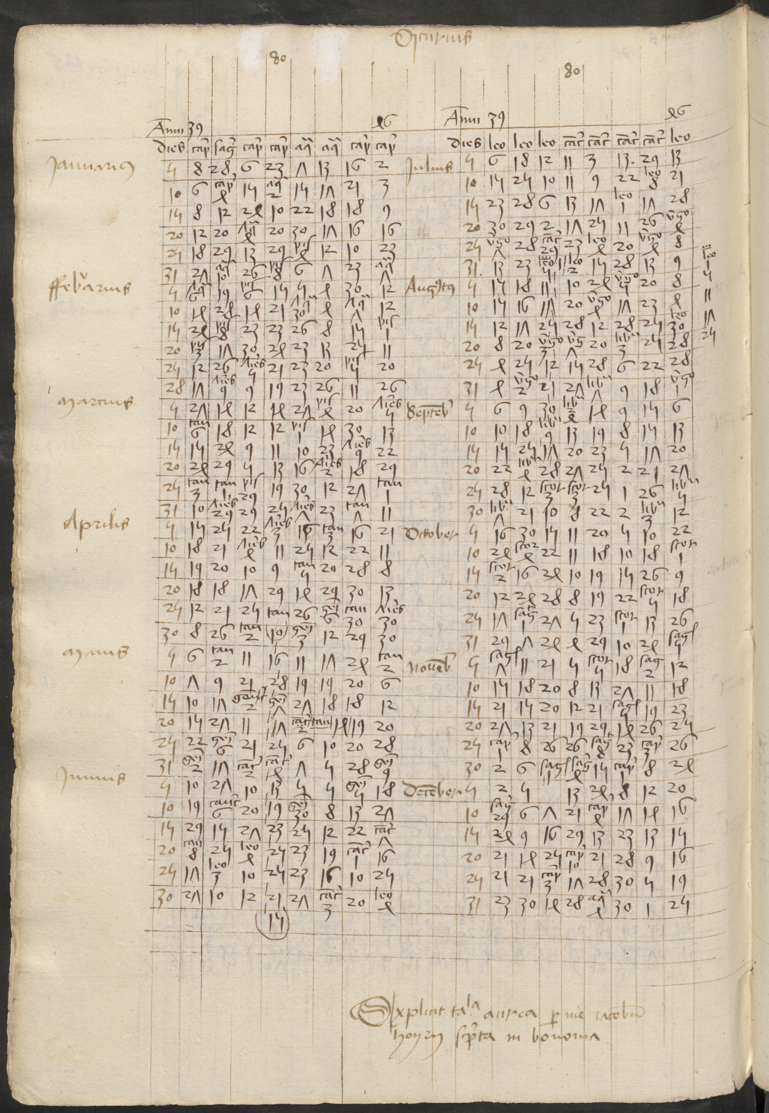 Ms.724, fol. 125v.